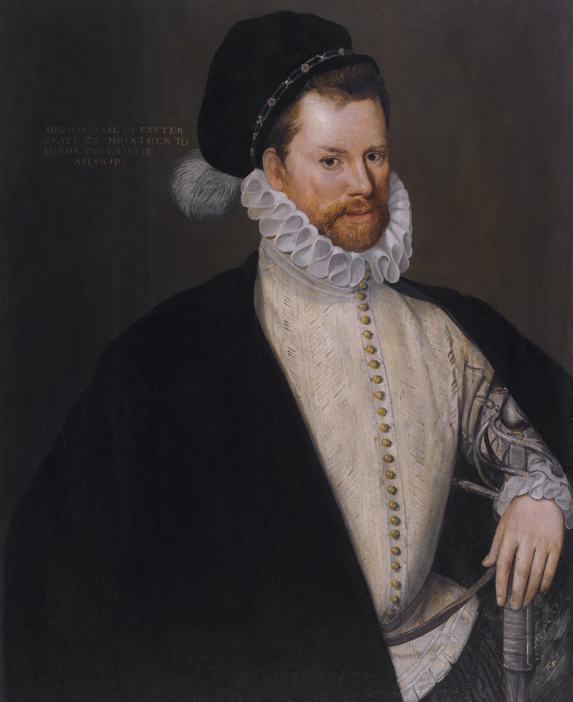 Thomas Cecil, 1st Earl of Exeter (1542-1622/23) oil on panel 93 x 75 cm inscribed u.l.: THOMAS EARL OF EXETER / GRATE GRANDFATHER TO DIANA COUNTISS OF / AILESBVRY